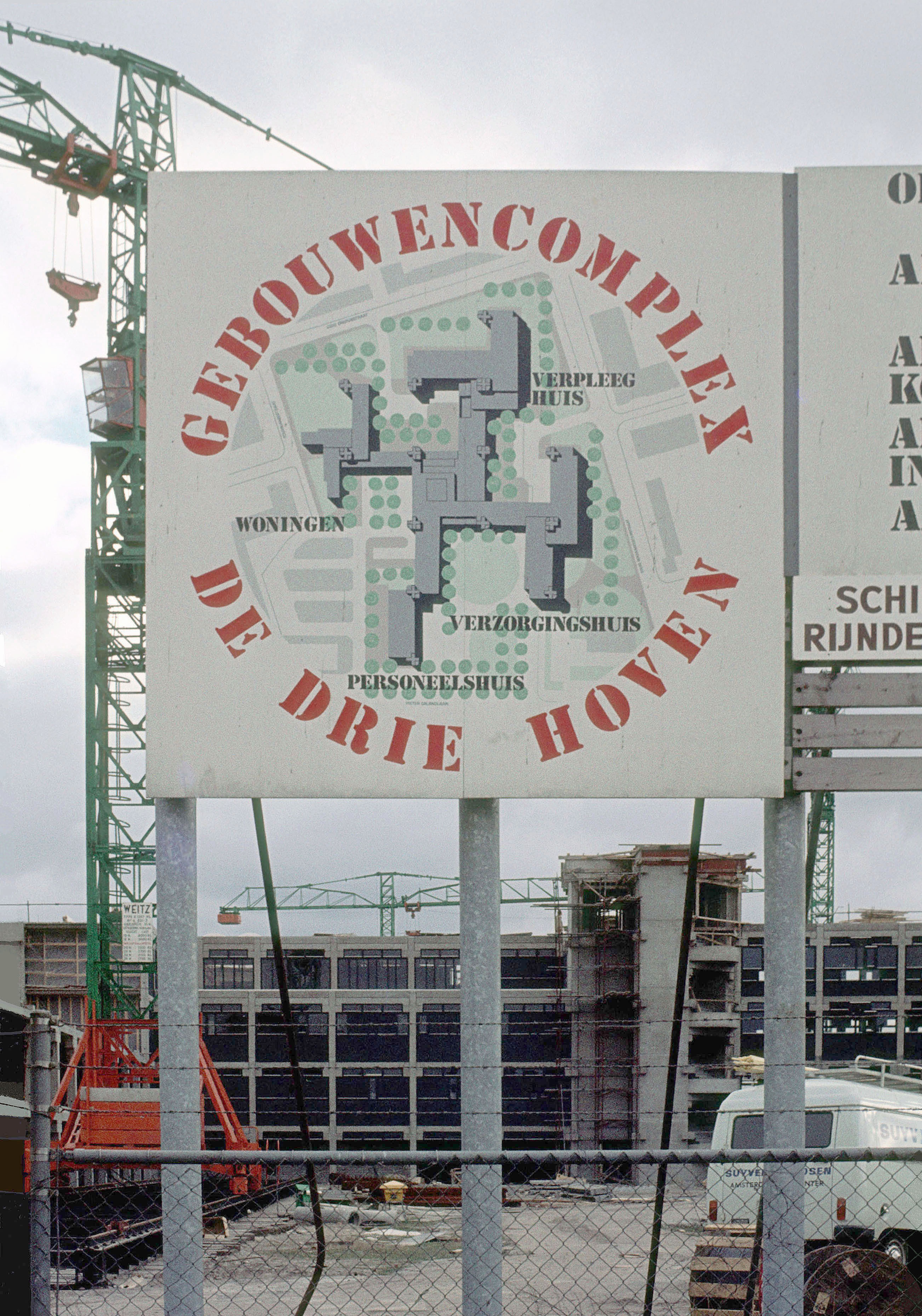 "De Drie Hoven", residential building for elderly people in Amsterdam-Slotervaart, 1974 (arch. Herman Hertzberger)